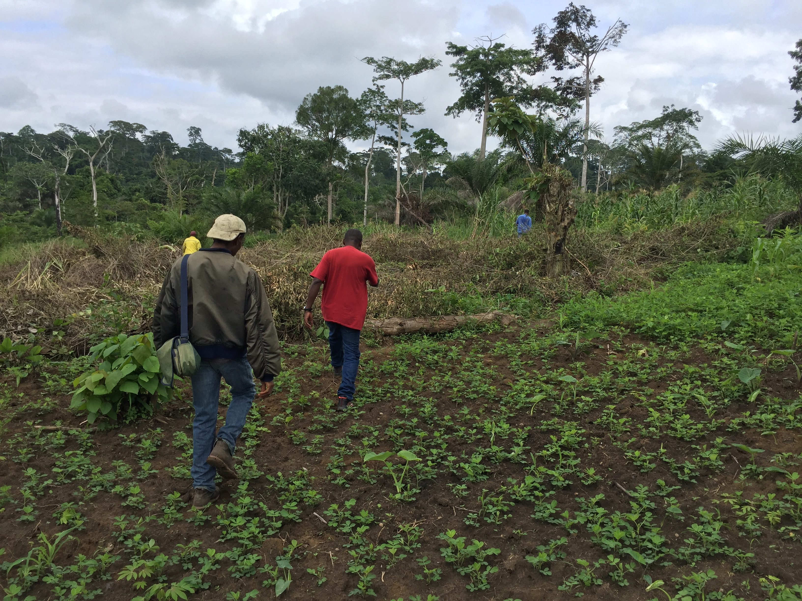 This is an image of "African people at work" from Cameroon